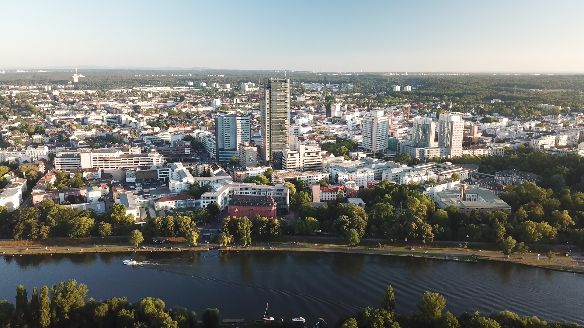 Offenbach am Main Drone view